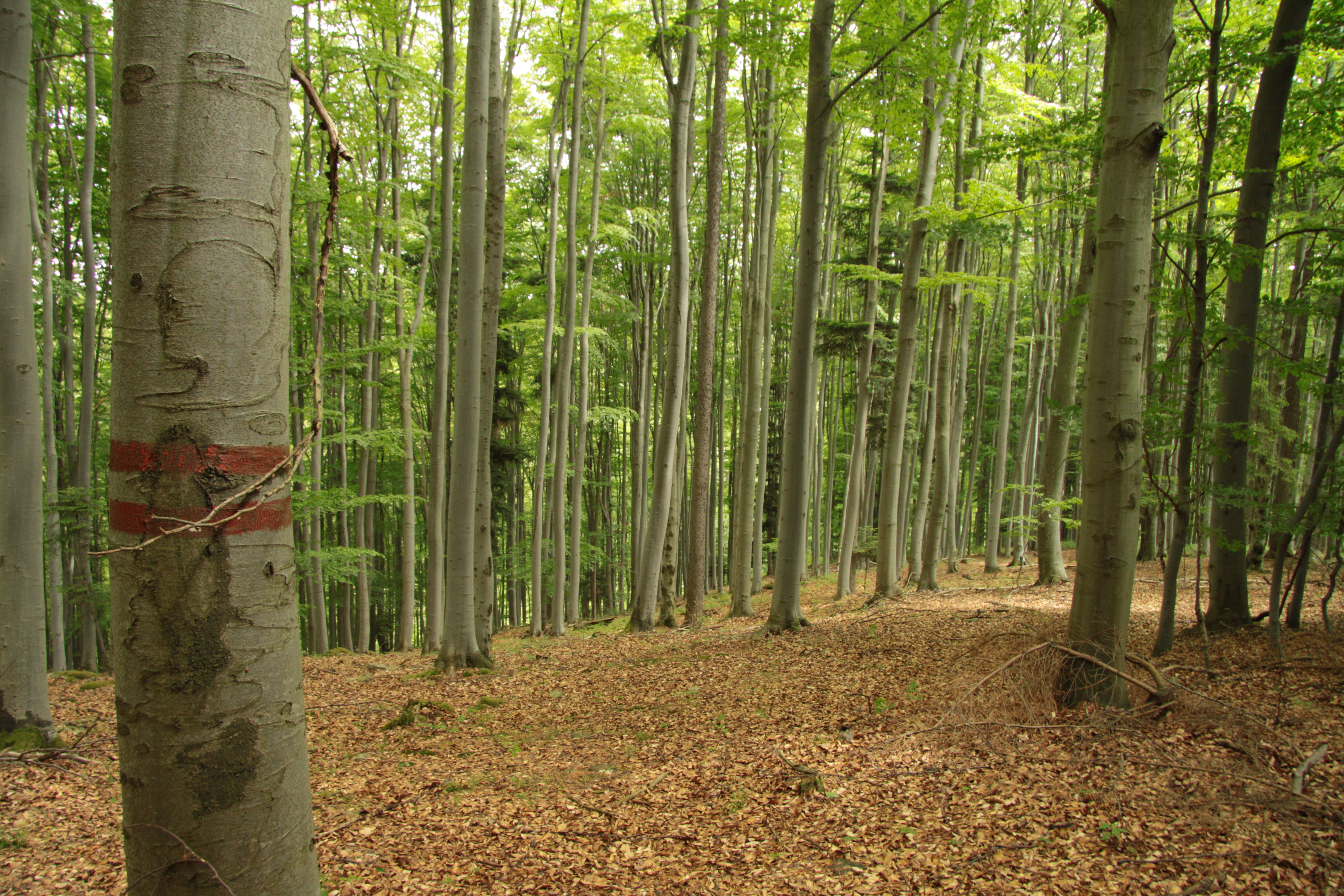 Natural monument U Piláta near Vitějovice village, Prachatice District, Czech Republic - Google Maps - Google Earth